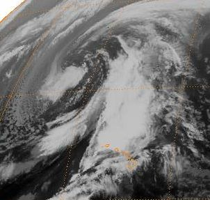 Zoom over central Pacific waters of novembre 4, 1995 GOES 7 weather satellite image at 00 GMT